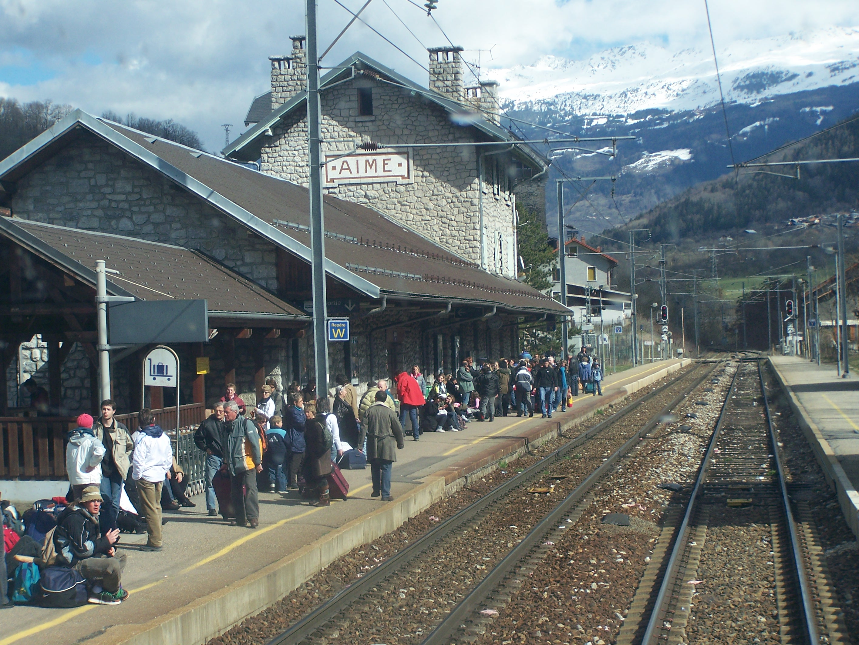 Passengers waiting for their train in the station of Aime - La Plagne (Savoie, France) after having spent some holiday time in the Alps.